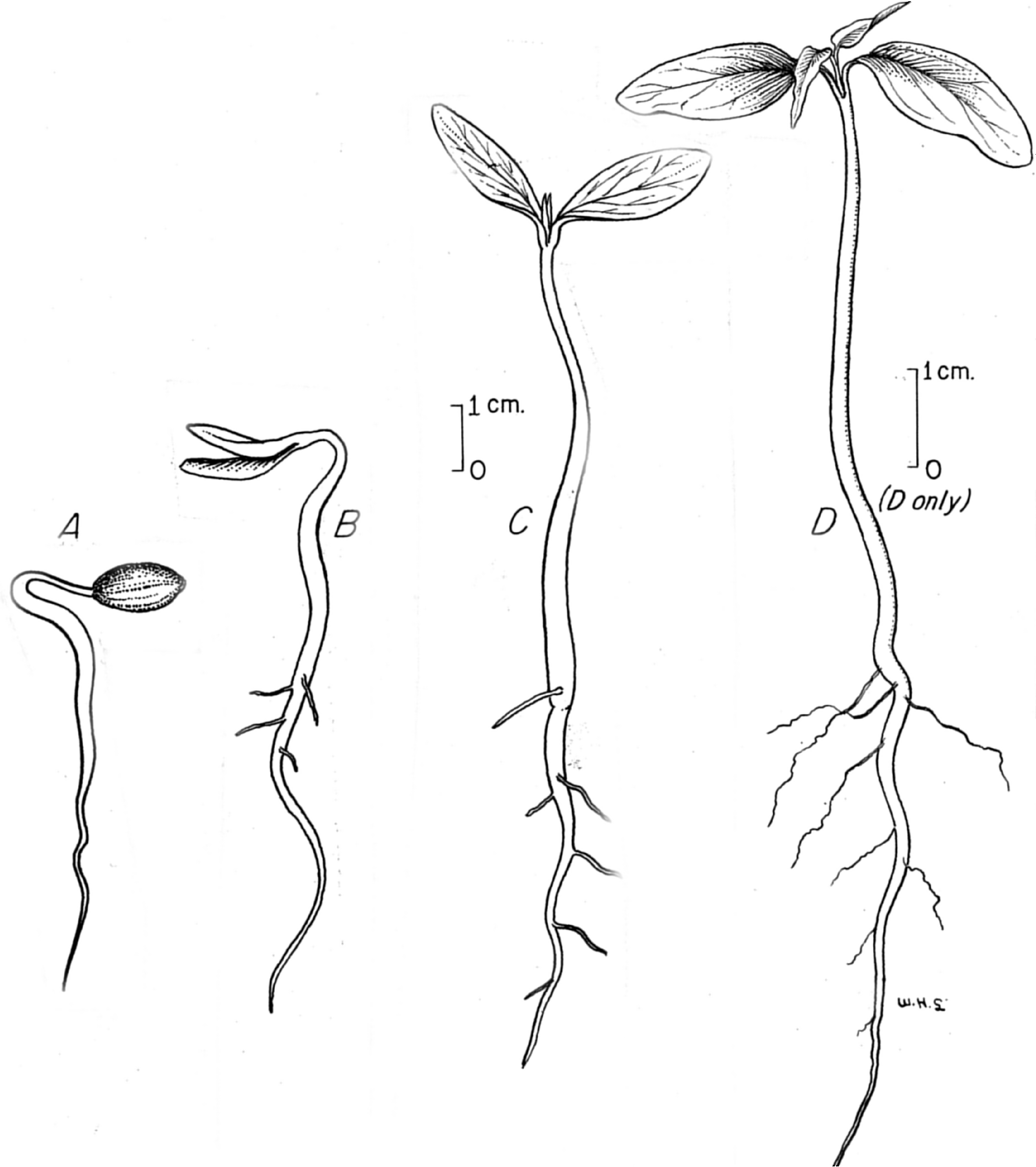 Illustration of the first growing stages of a Cornus seedling